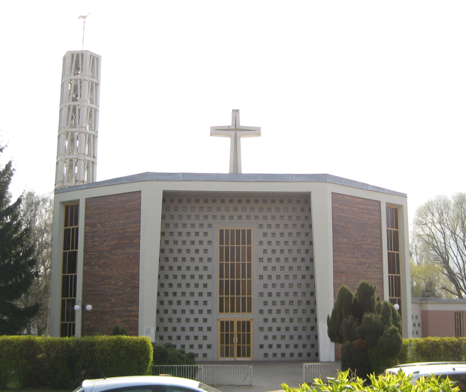 The St. Nikolaus-Kirche in Berlin-Wittenau, church door